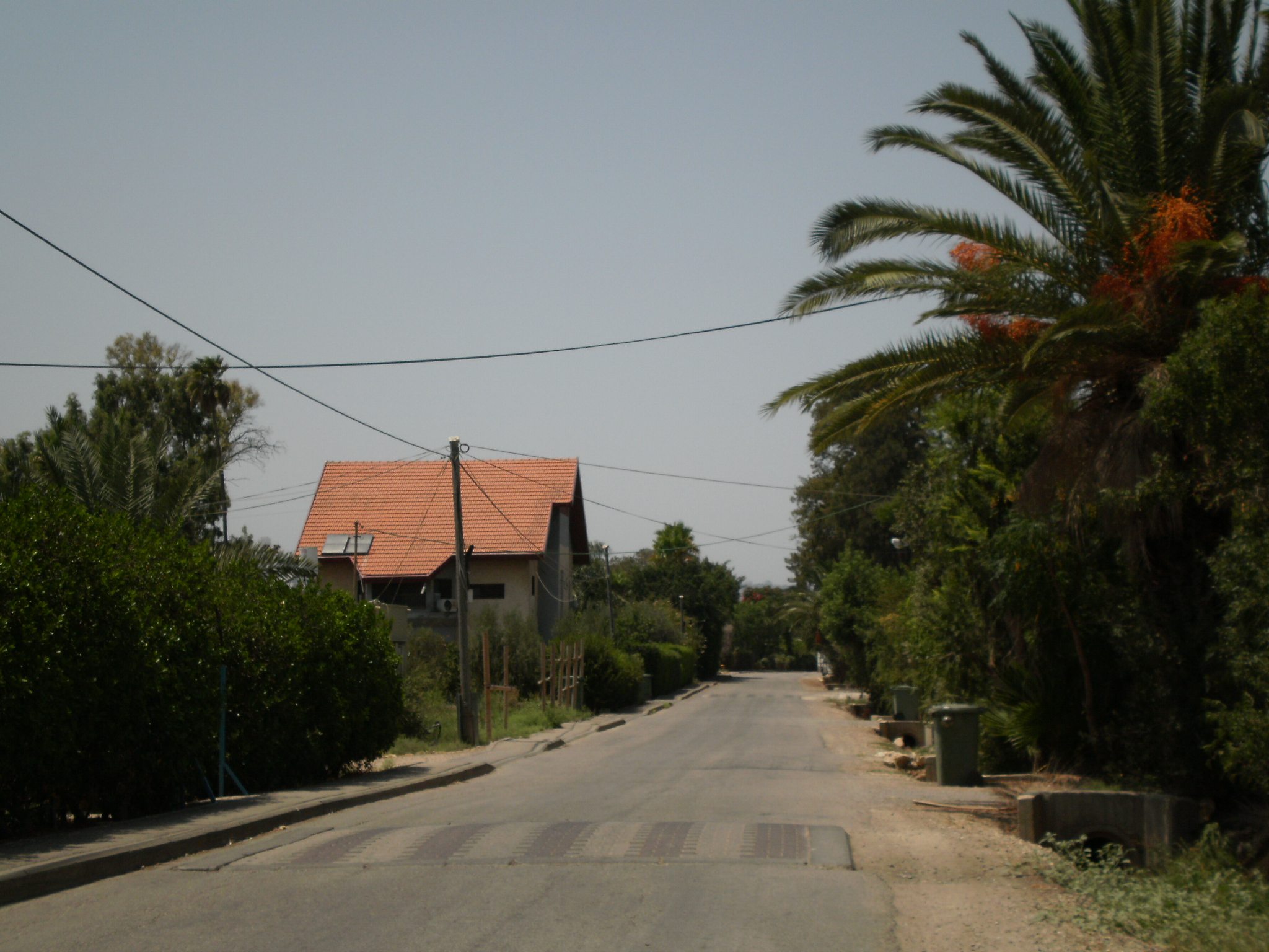 a street in Kfar Hasidim, a Moshav in Zevulun Regional Council, Israel